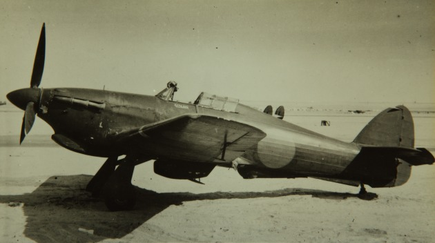 PictionID:6504465 - Catalog:01_00081084 - Title:Hawker, Hurricane - Filename:01_00081084.TIF - Image from the Charles Daniels Photo Collection album "Seversky, Republic and P-47"----PLEASE TAG this image with any information you know about it, so that we can permanently store this data with the original image file in our Digital Asset Management System.----SOURCE INSTITUTION: San Diego Air and Space Museum Archive